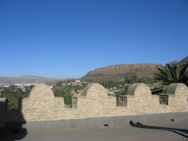 View of Tigray state from Emperor Yohannes Palace